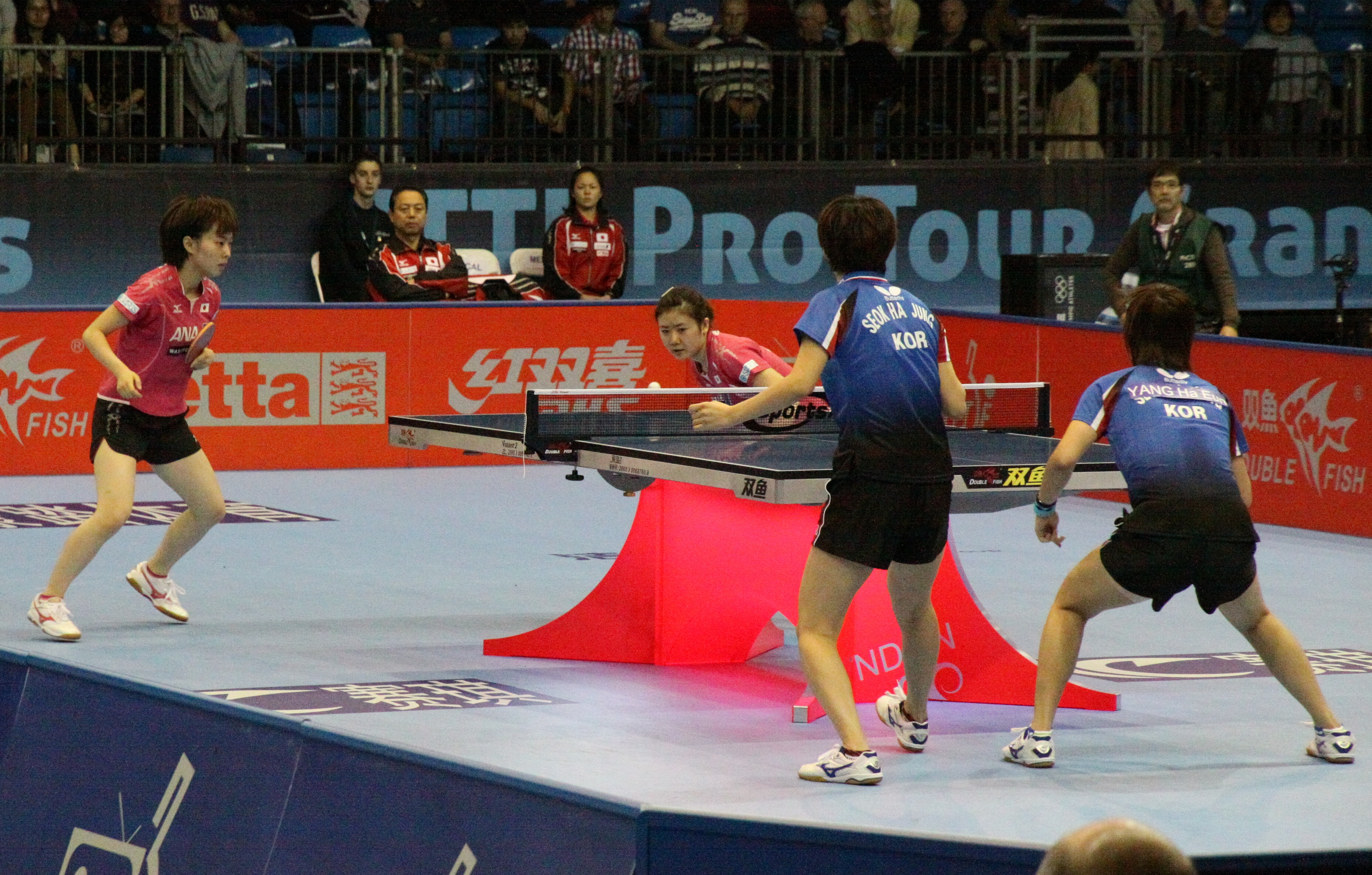 Kasumi Ishikawa (on the left) and Ai Fukuhara during the Table Tennis Pro Tour Grand Finals at the ExCeL London on November 27-28, 2011.